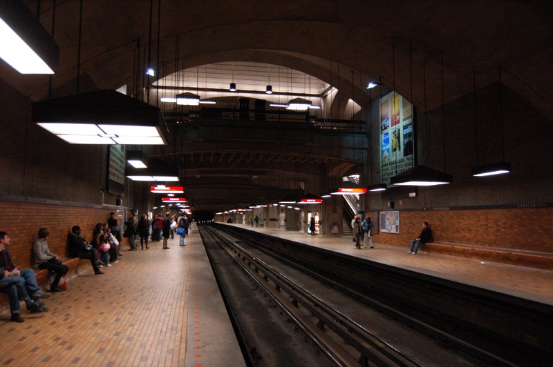 Montreal Metro Bonaventure Station